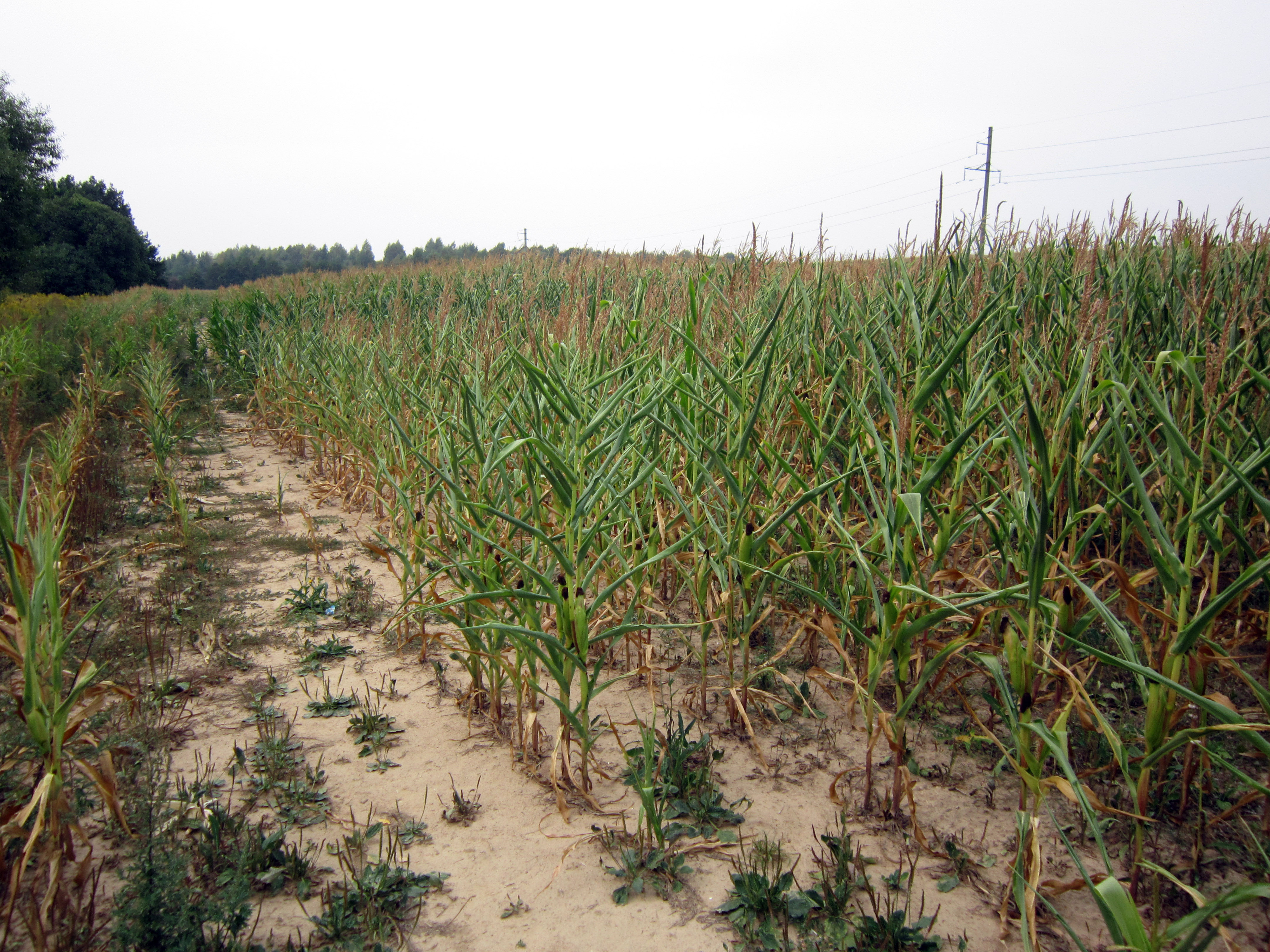 Corn field near Minsk